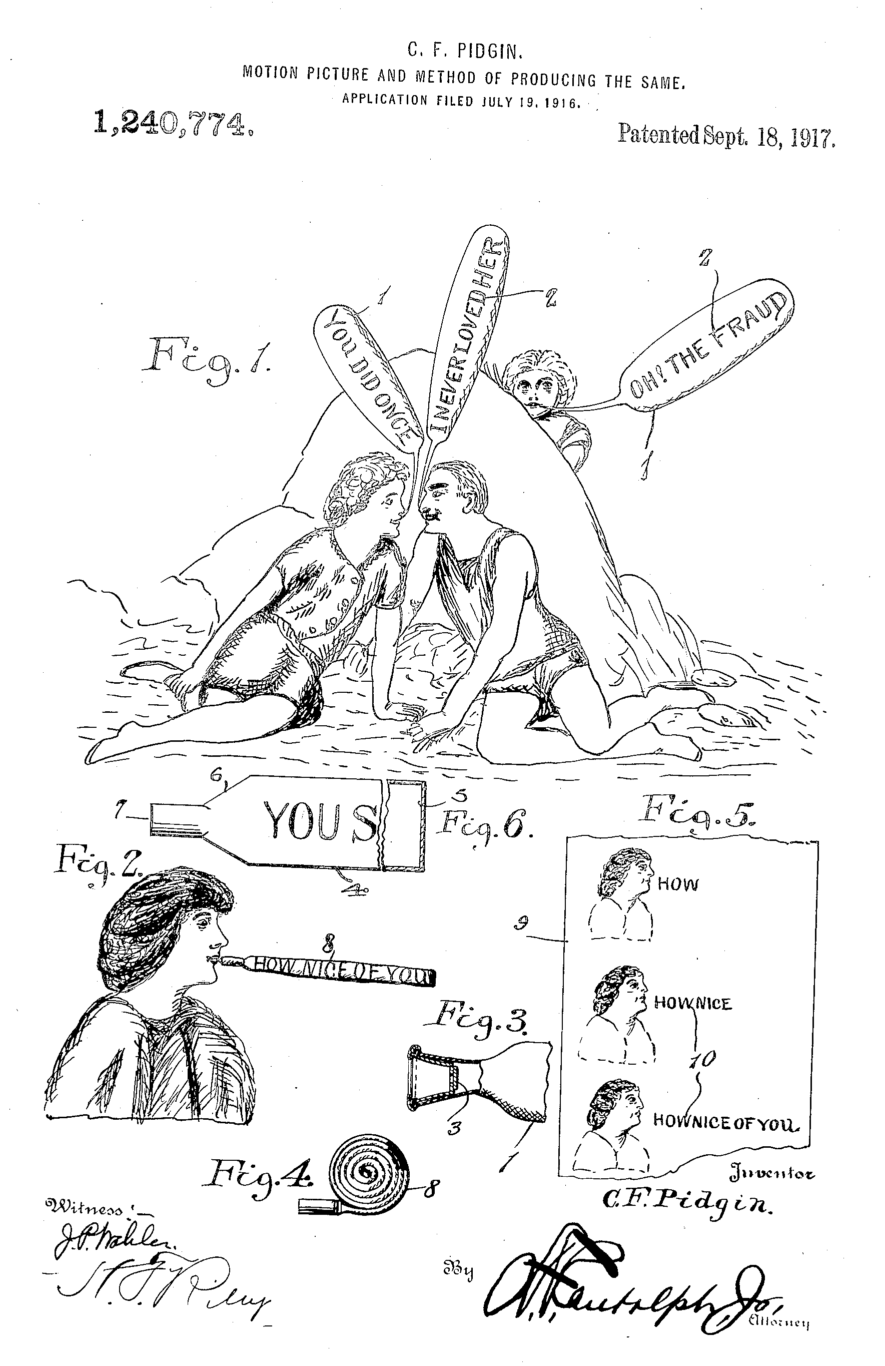 Illustration from U.S. Patent 1,240,774 "Motion-picture and method of producing the same." Filed July 19, 1916, publication date September 18, 1917 by C.F. Pidgin (Charles Felton Pidgin)